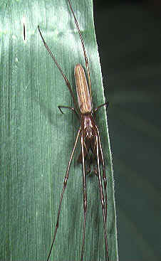 male Tetragnatha nitens from Okinawa.